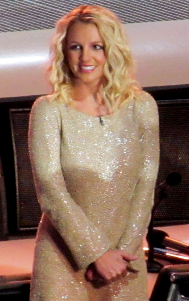 Britney Spears at the X-Factor US, in June 2012.